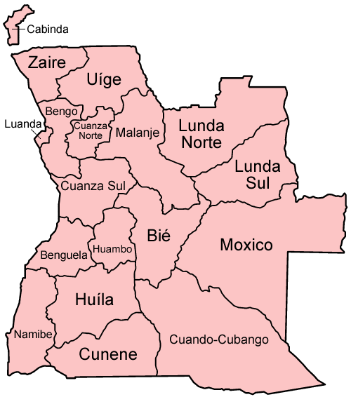 Map of the provinces of Angola, named with ISO standard names. Made by User:Golbez.